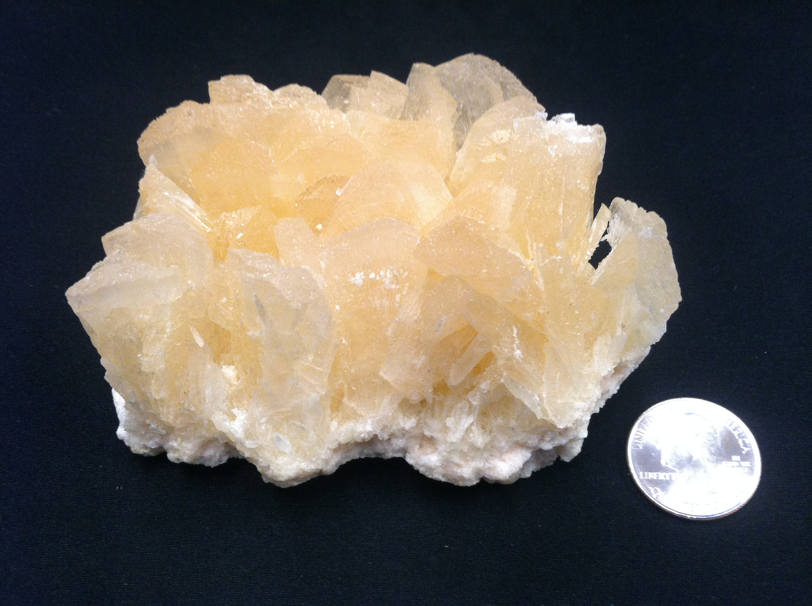 Trona sample collected from Searles Lake San Bernardino County, California, near the town of Trona.